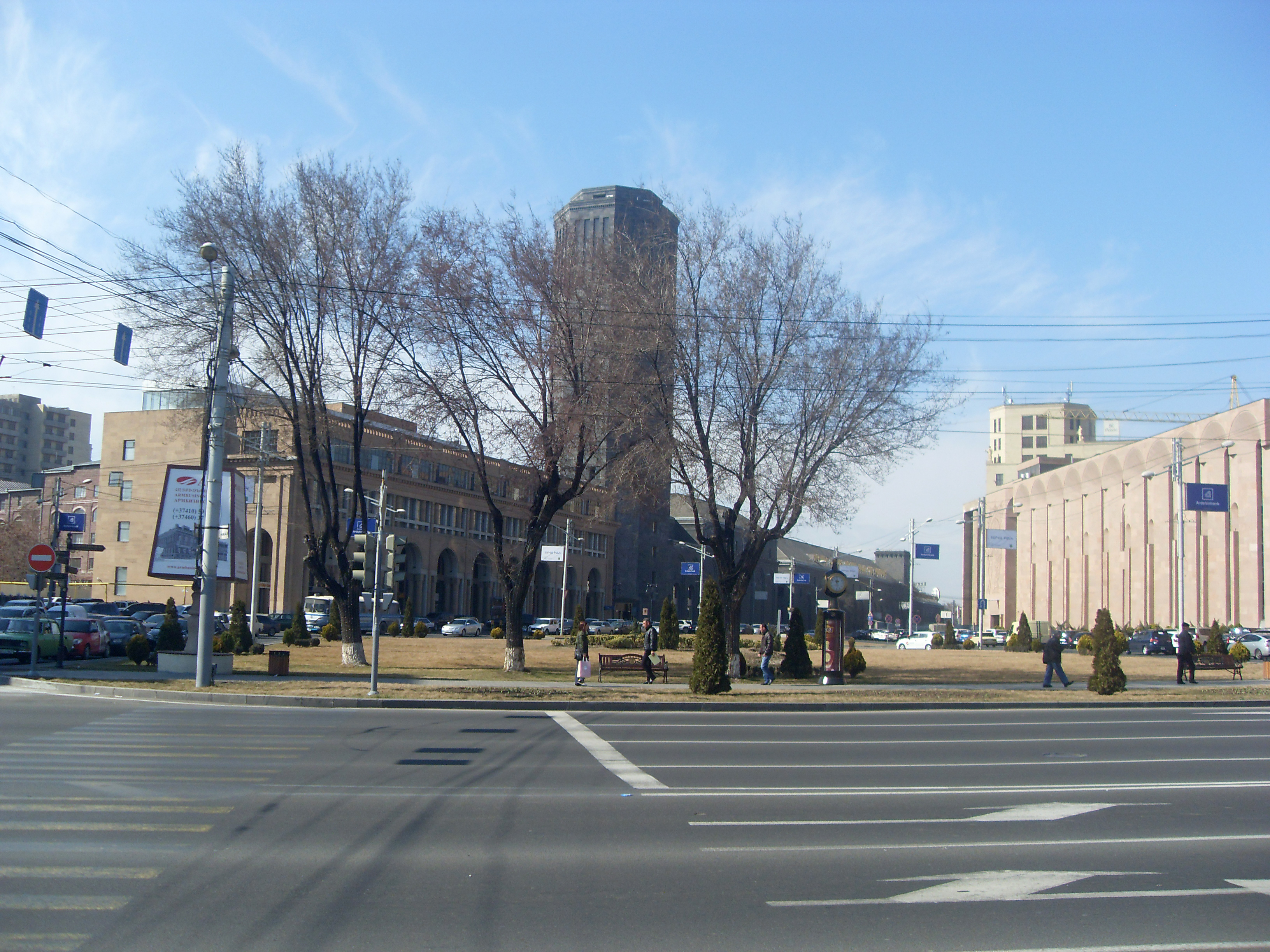 Երևան, Ռուսաստանի հրապարակ